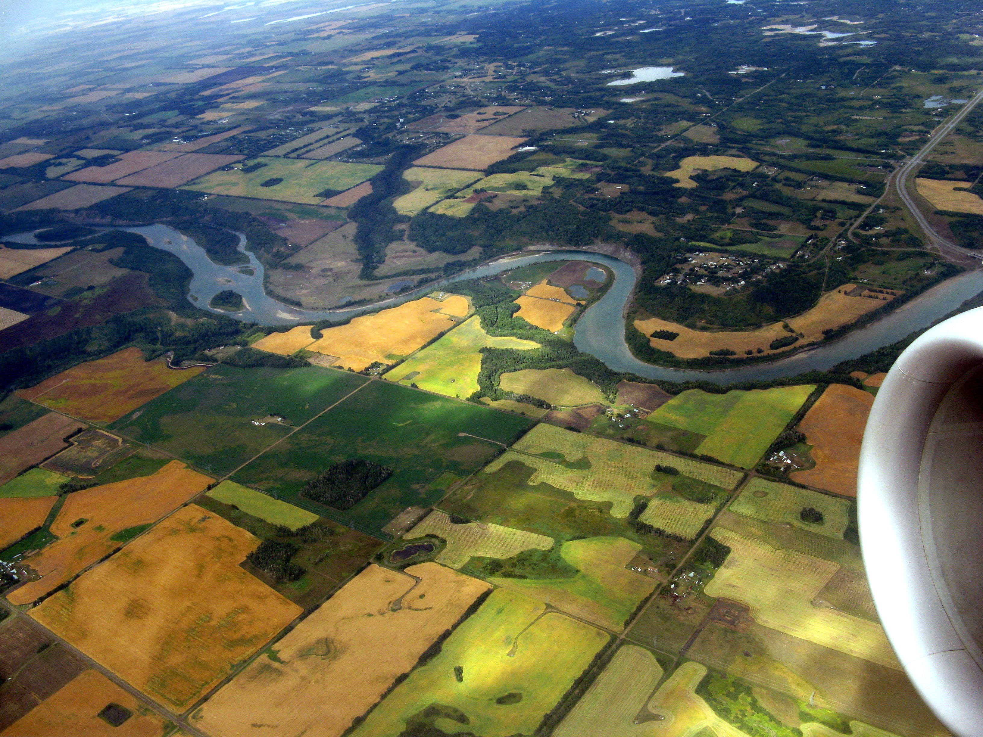 Flying over a branch of the Saskatchewan River in Alberta.